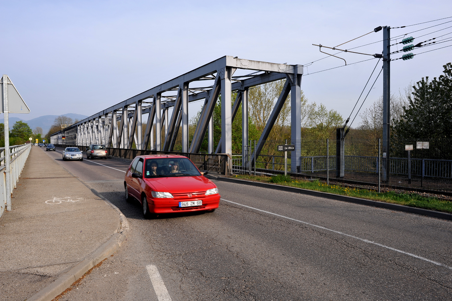 Bridges over the Rhine river between Neuenburg am Rhein and Chalampé; Haut-Rhin, France.